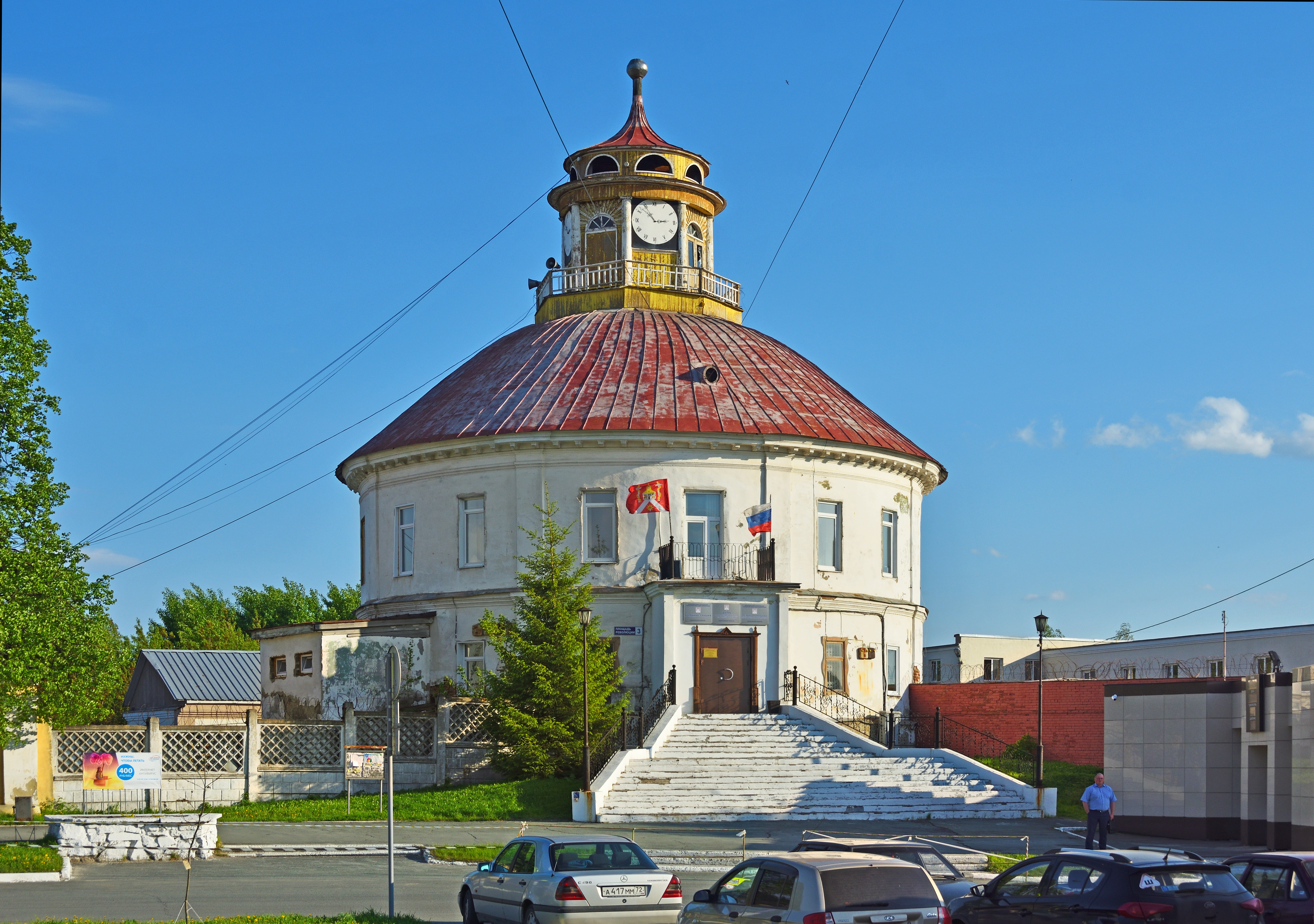 Plant managament building - House-decanter, Verkh-Neyvinsky, Sverdlovsk oblast, Russia